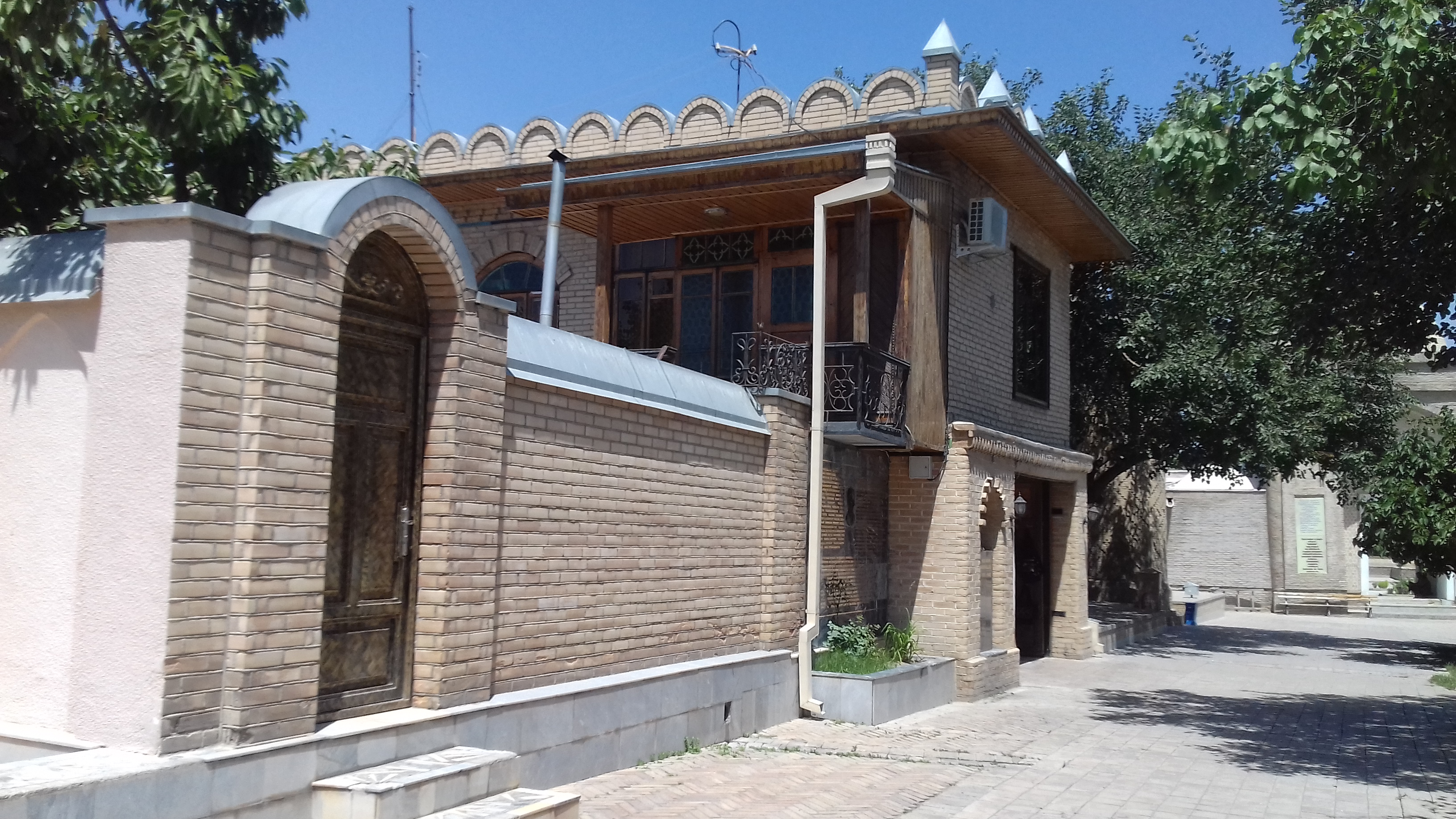 Home Museum of the Hoji Muin Shukrulloev in Samarkand (Uzbekistan), near the Ruhabad Mosque.